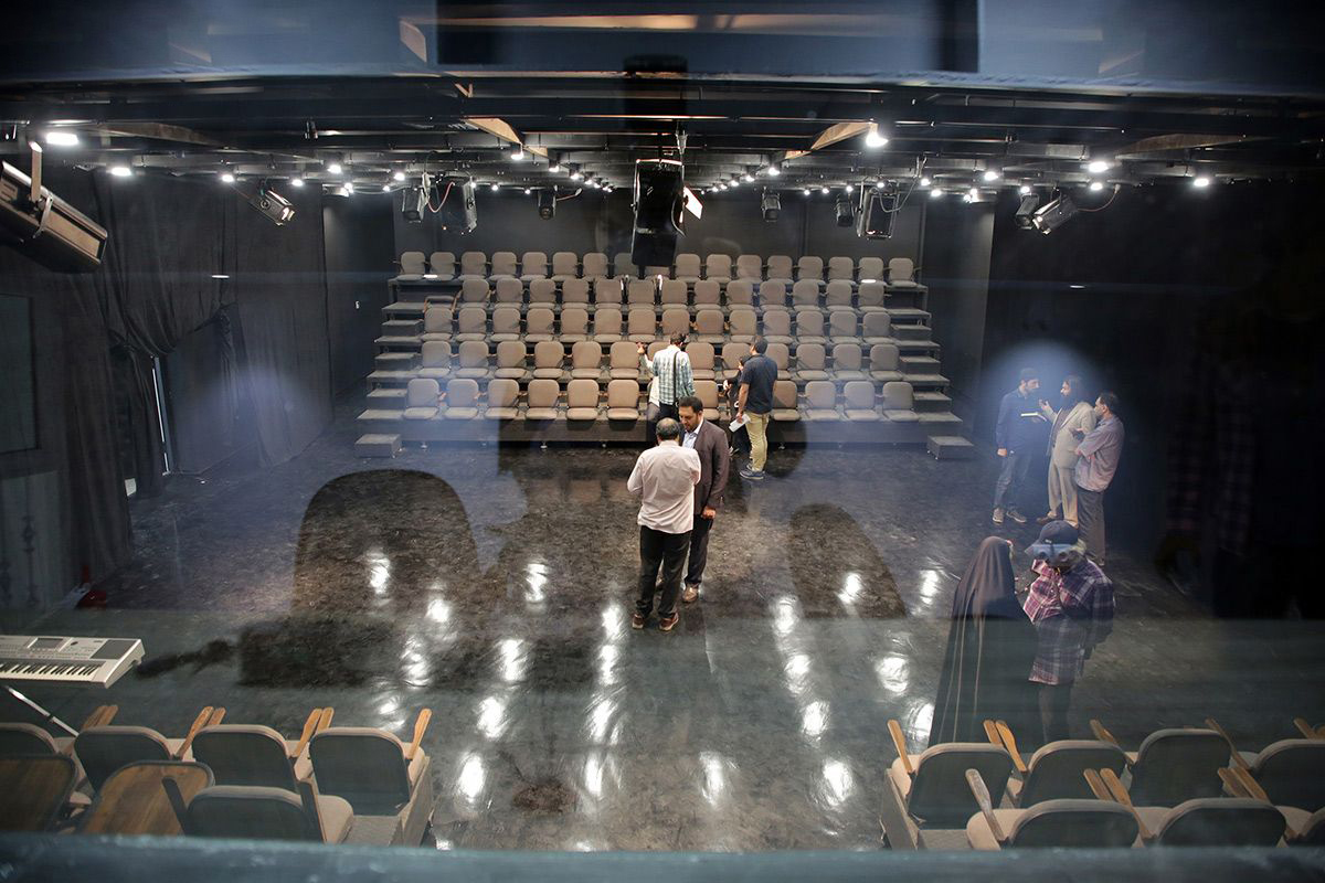 Hossein Nuri Theater located in city of Mashhad, Iran.